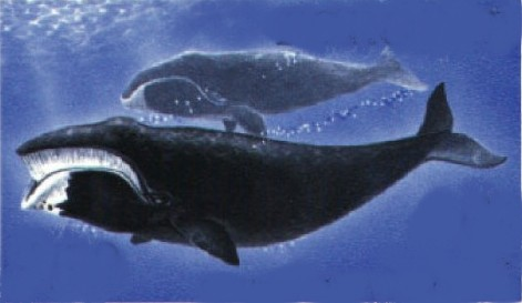 Bowhead whales